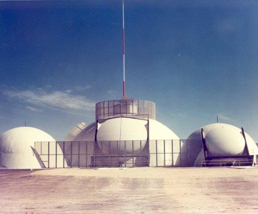 Another view of the MAR-I radar system built at White Sands Missile Range in the mid-1960s. In this image, taken from in front of the north-facing antenna, protective covers have been slid up over the antenna elements, riding upward on the dark-colored rails from their underground storage. The fencing in the foreground prevents stray signals from the transmitter being received on the receiver behind it. A similar fence on the top of the central dome does the same for the Nike Hercules target radar placed there, which was used to calibrate range measurements by the MAR during testing.